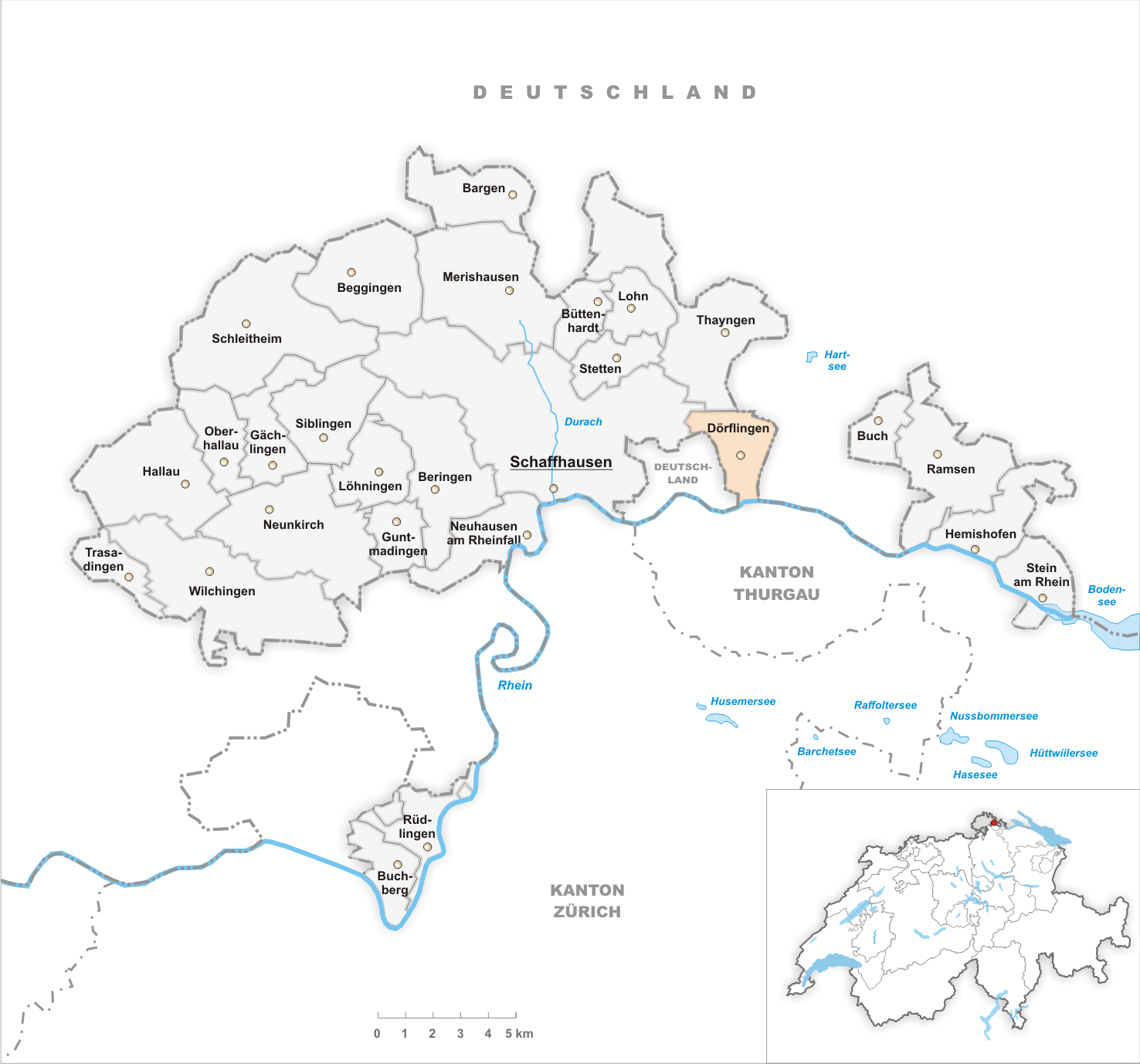 Municipality Dörflingen